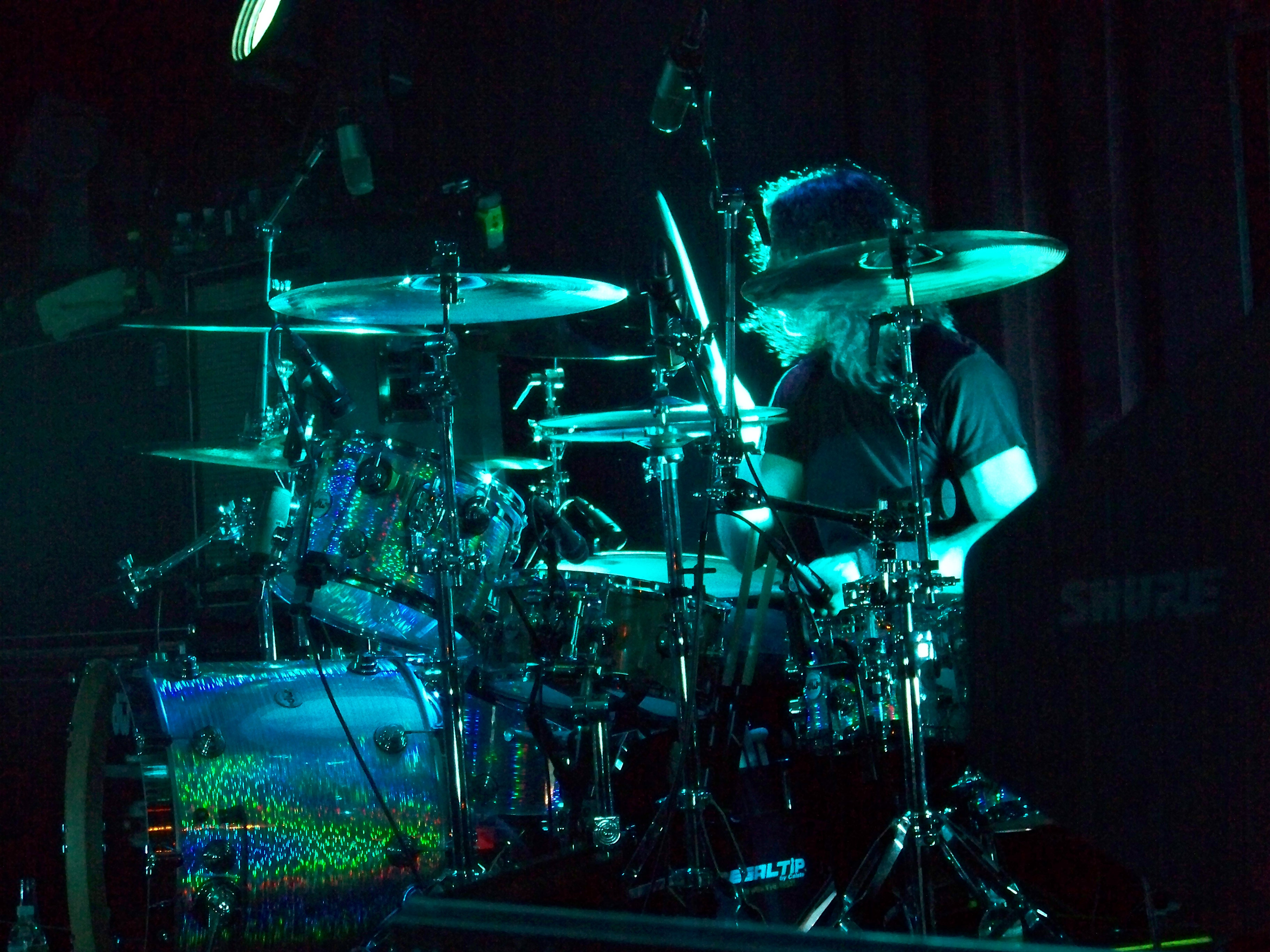 Sean Kinney, of Alice in Chains, live at the Paradise in Boston, Sept. 7, 2009.